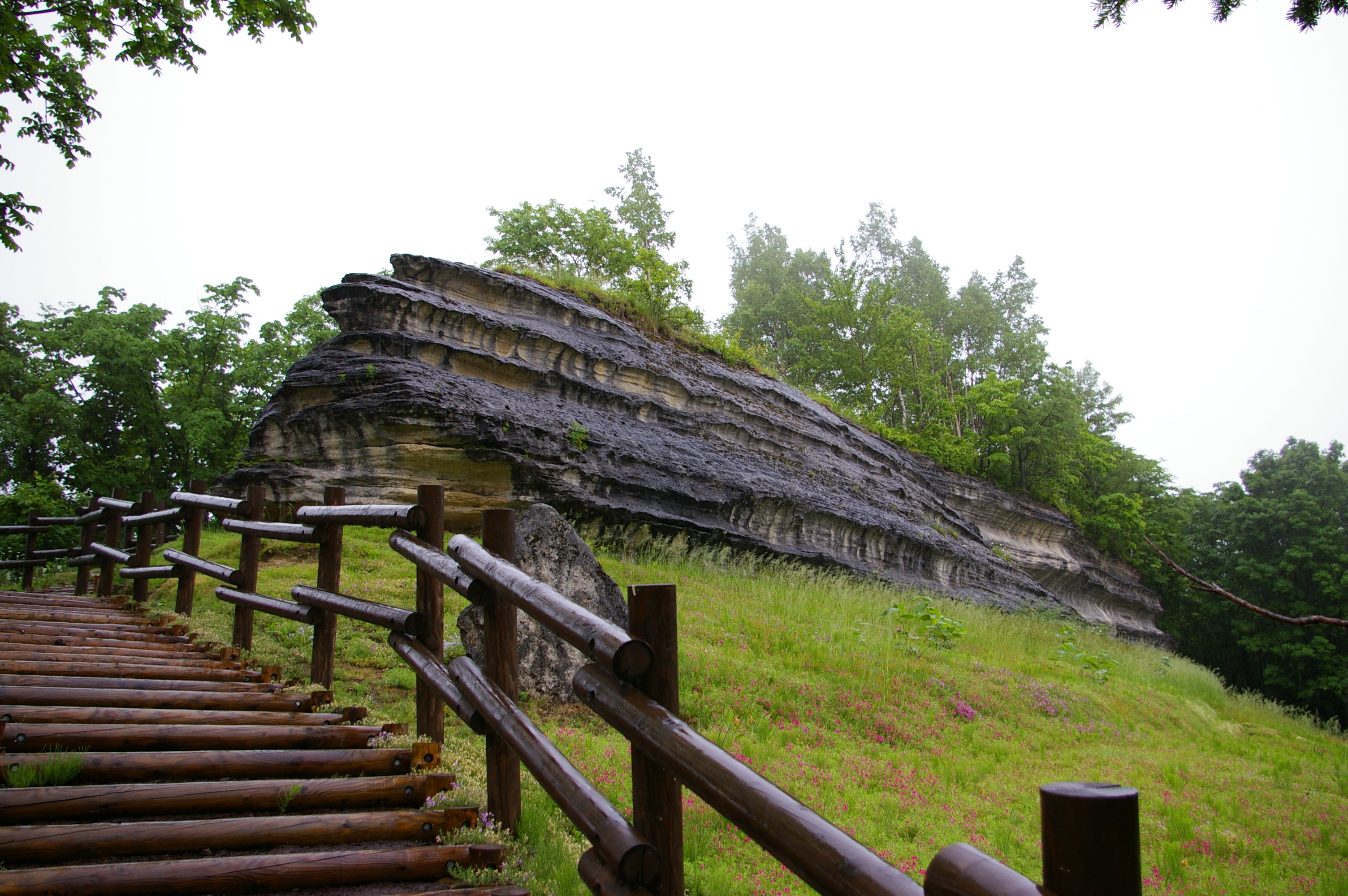 Gunkan-Iwa, limestone rock near the entrance of Nakatonbetsu-Shonyudo cave